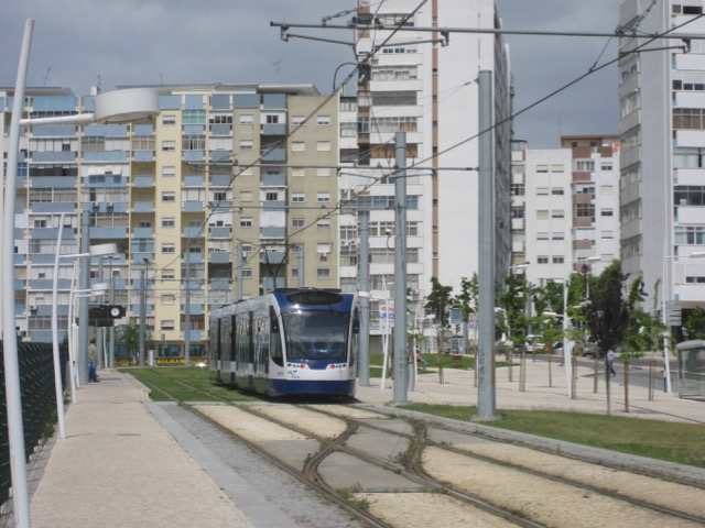 Cova da Piedade stop